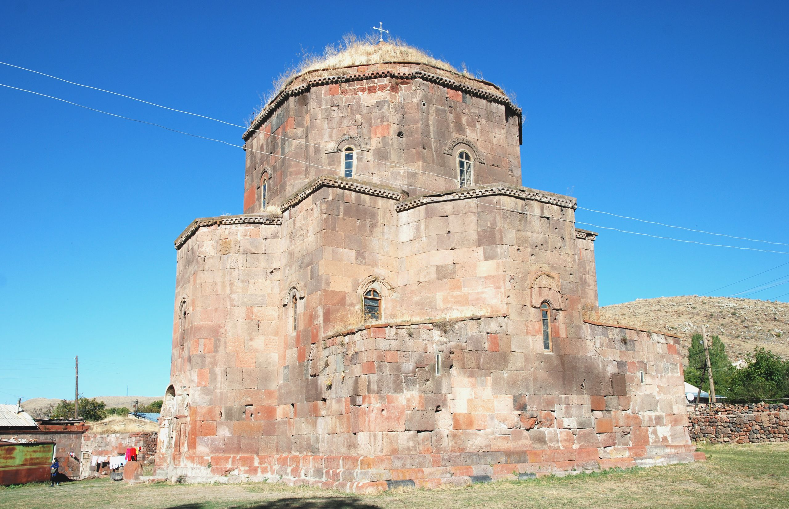 Mastara, church from southeast